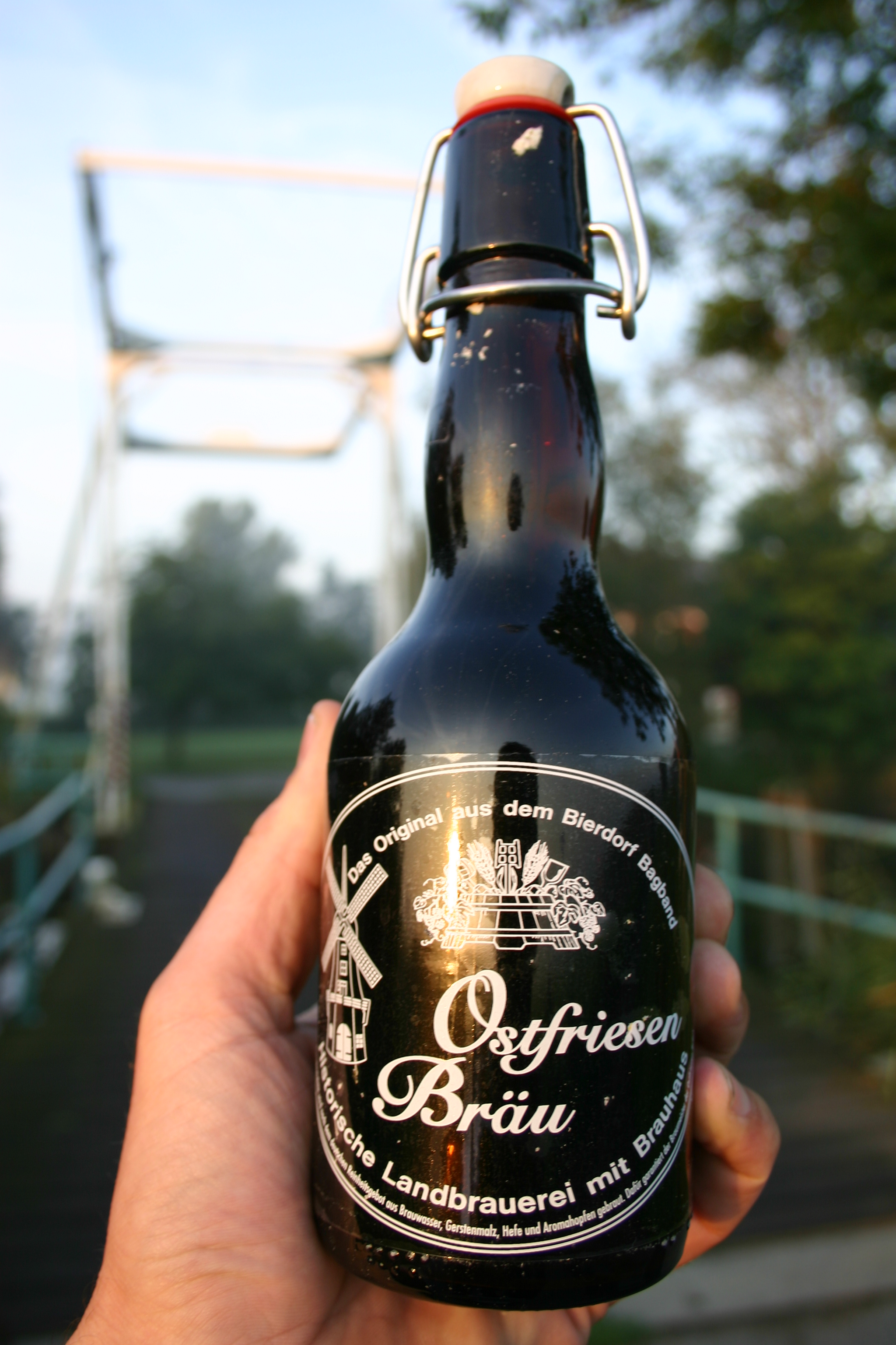 Bottle of "Ostfriesen-Bräu" beer made in Bagband, East Frisia